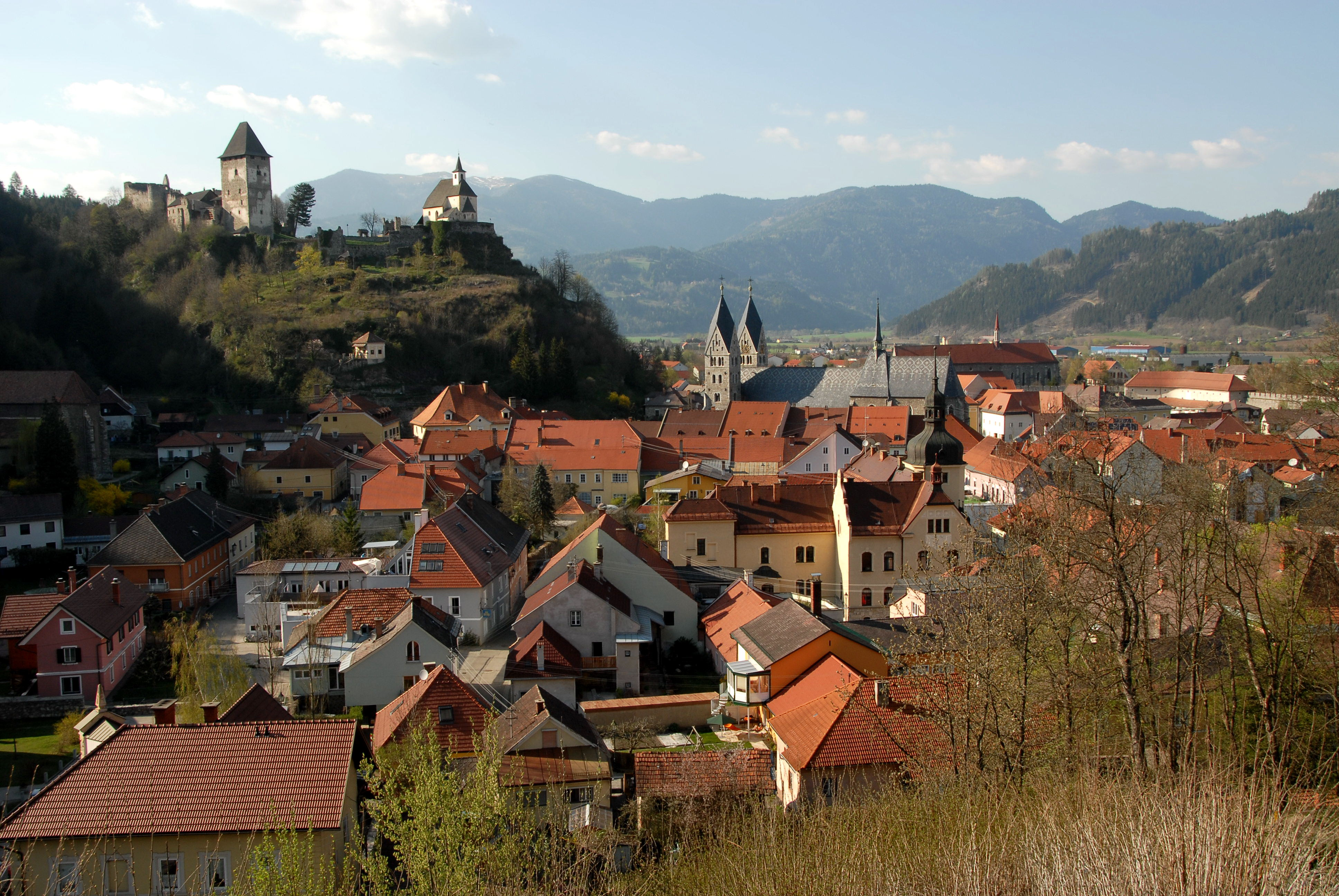 View from Virigilienberg at the medieval city of Friesach, Carinthia, Austria